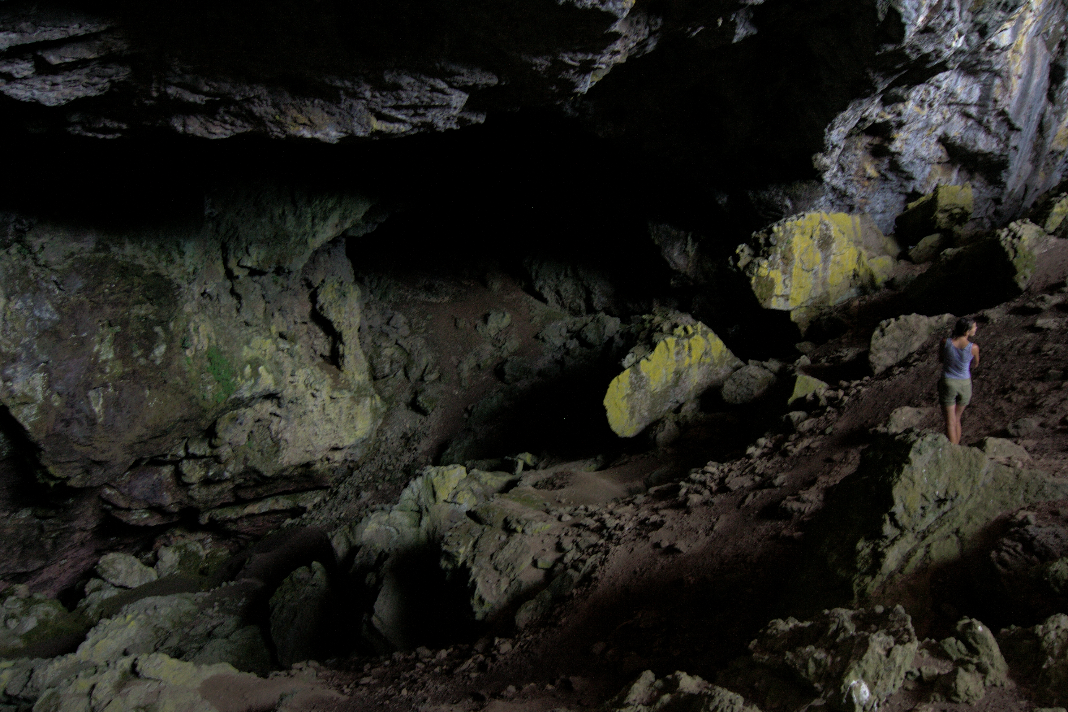 Cave of Kamares.